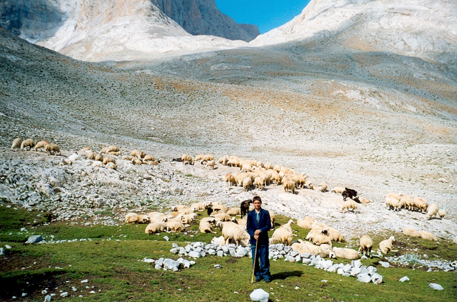 A Yörük shepherd in Ala Dağlar, Taurus Mountains, Turkey.